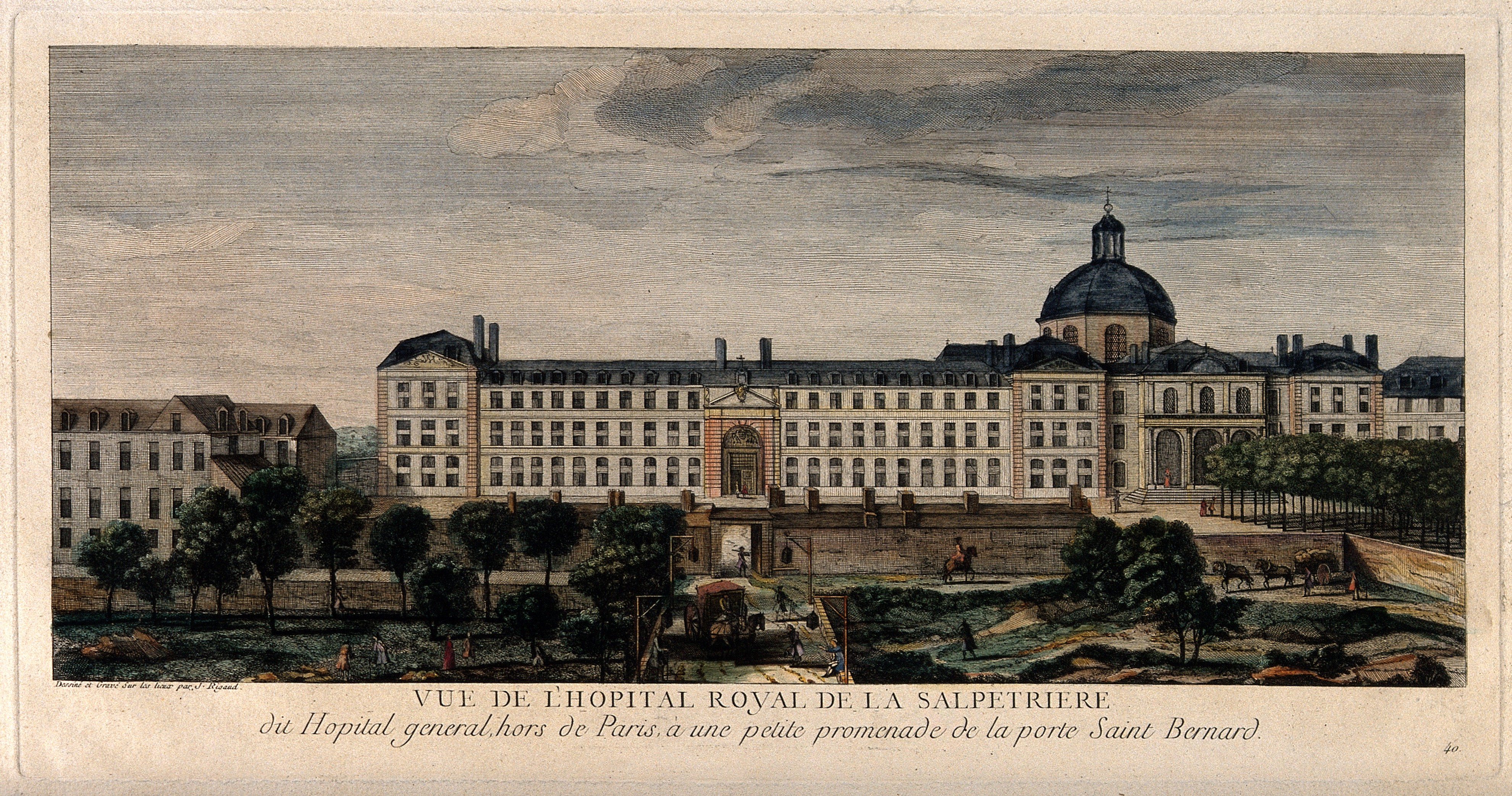 Hôpital de la Salpêtrière, Paris: showing St. Bernard's doorway and grounds. Coloured line engraving by J. Rigaud after himself. Iconographic Collections Keywords: Jacques Rigaud; Hôpital Salpêtrière (Paris, France)